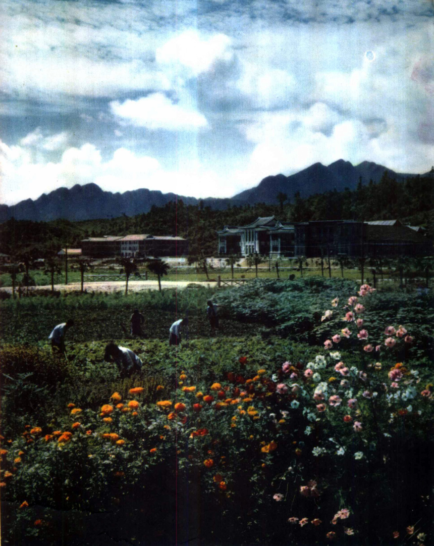 New scenery of Jinggangshan.